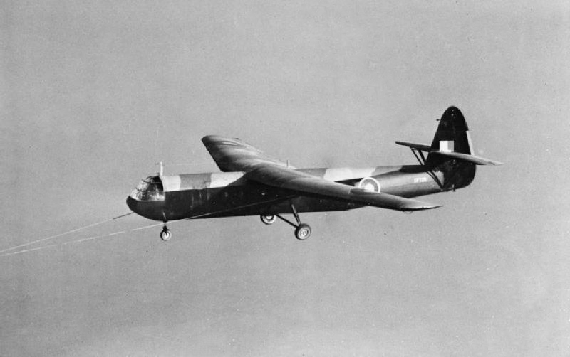 Aircraft of the Royal Air Force 1939-1945- Airspeed As.51 Horsa. Horsa Mark I, DP726, of the Airborne Forces Experimental Establishment based at Ringway, Cheshire, in flight under tow